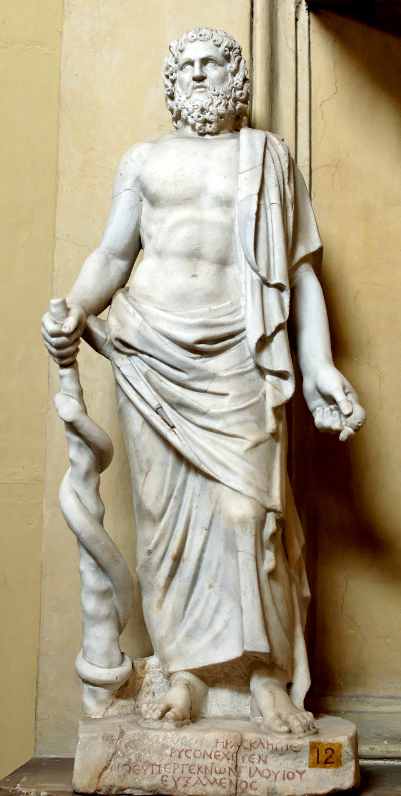 Asklepios. Marble, Roman copy after a Greek original of the 5th century BC. The inscription on the plinth indicates the statuette to be a votive gift. From the Vicolo dei Leutari in Rome, 1783.